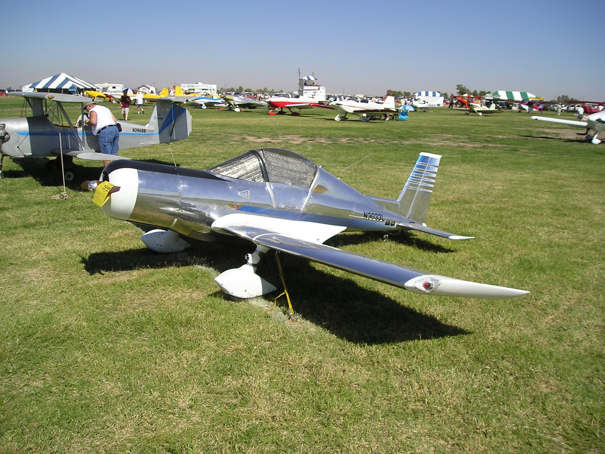 Hummelbird built by David Roe with custom AeroMorph engine and round cowl.